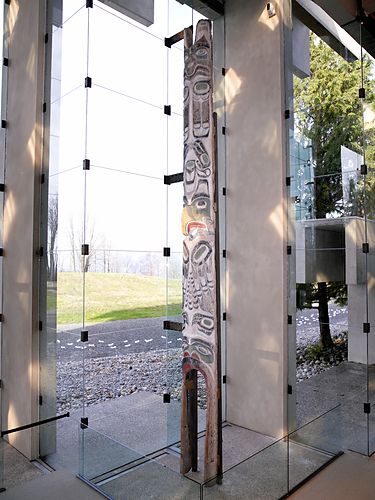 Totem pole carved by George Hunt for Edward Curtis' 1914 motion picture, In the Land of the Head-Hunters